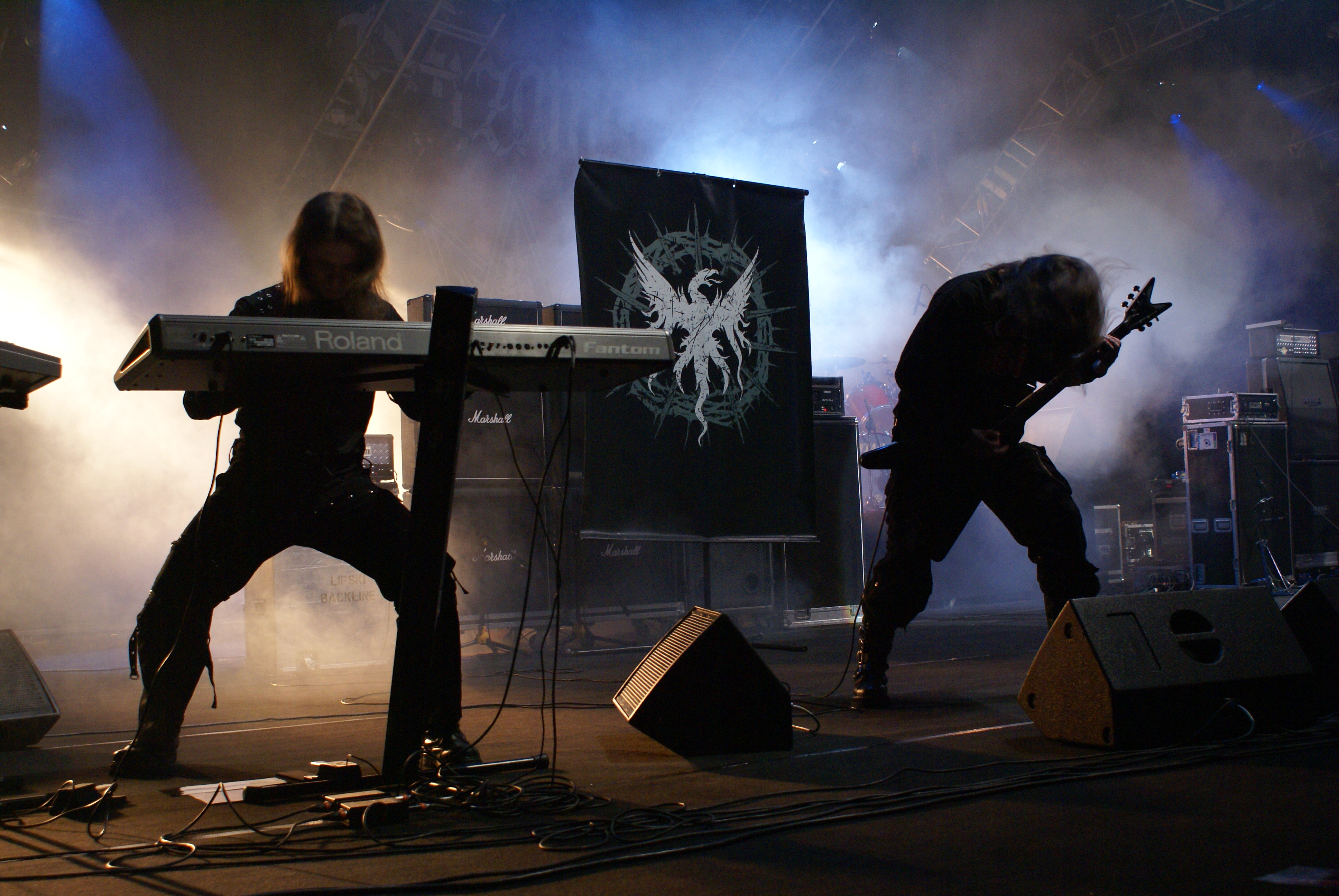 Spectre and Daamr from Darzamat during Metalmania 2007 festival.